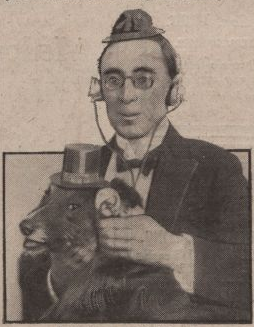 The Radio Times - 1923-12-21 - p476; image of Norman Clapham, as 'John Henry'.